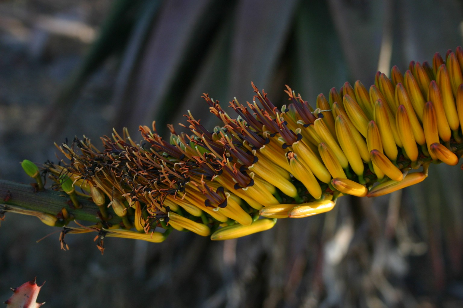 Aloe marlothii Berger flowers - Magaliesberg, South Africa